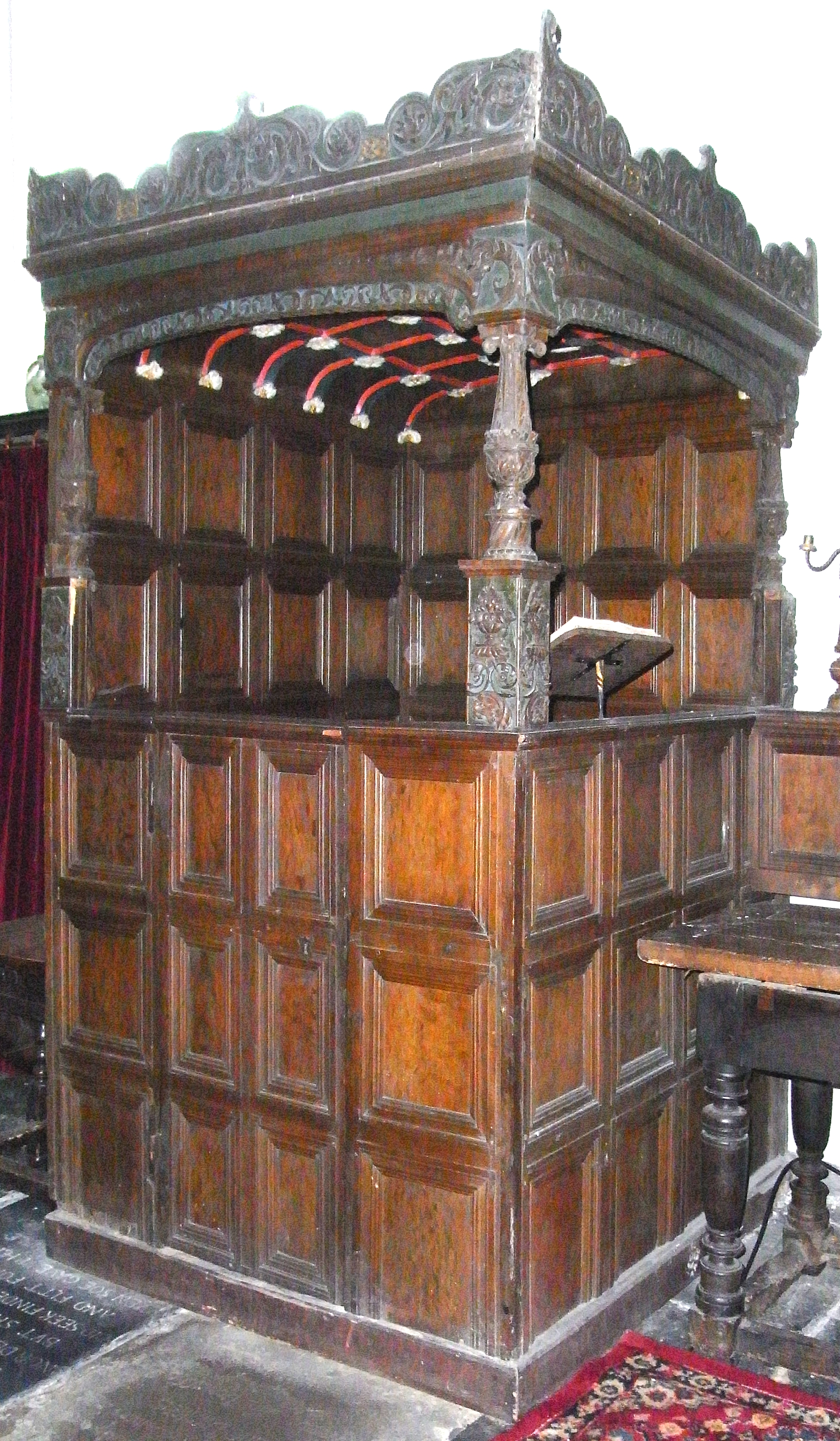 The Bourchier Pew (or "Manorial Pew"), north transept, St Peter's Church, Tawstock, Devon. Made in about 1550 in Franco-Flemish early Rennaissance style (Pevsner, Nikolaus & Cherry, Bridget, The Buildings of England: Devon, London, 2004, p.789) it was used by the lord of the manor of Tawstock.